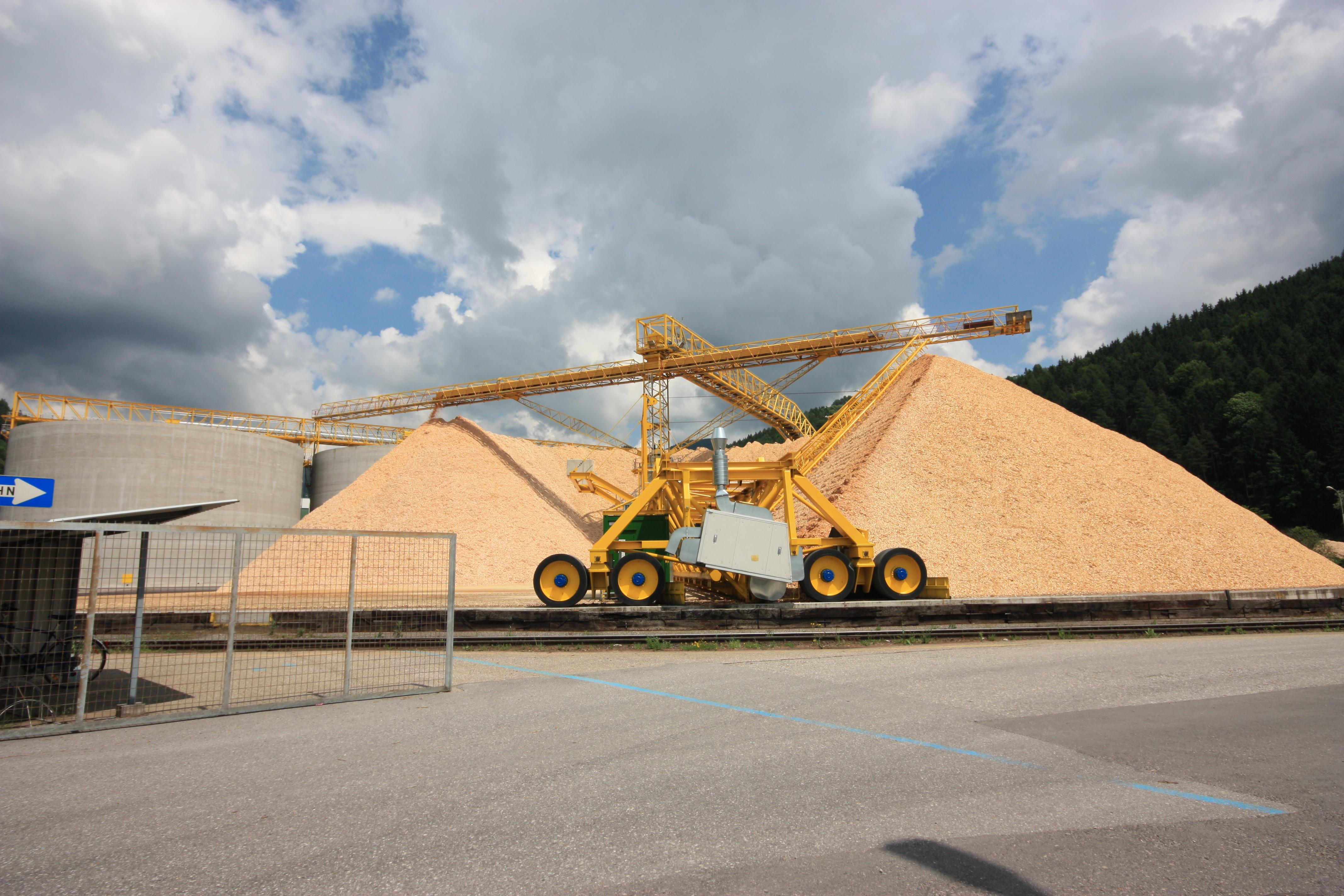 Paper- and Cellulose-plant in Frantschach, Carinthia